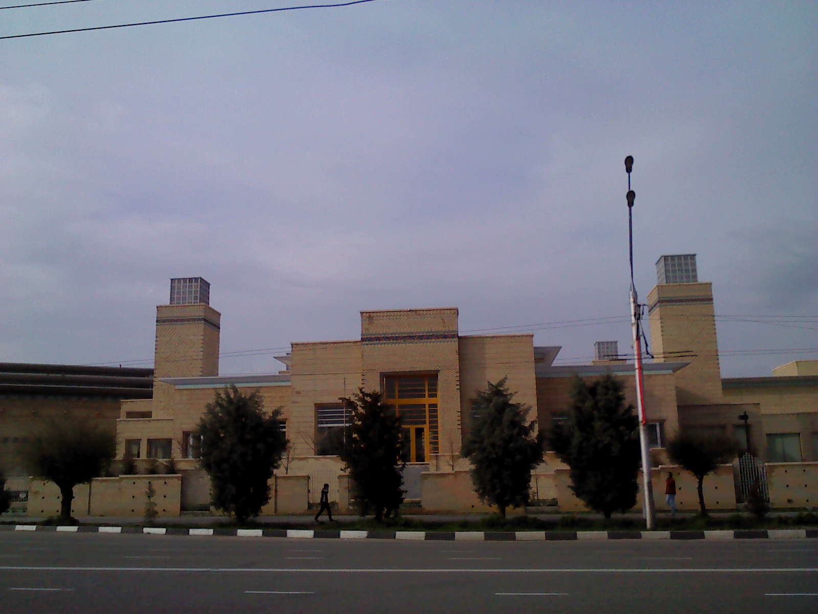 Ismaili Mosque, Dushanbe